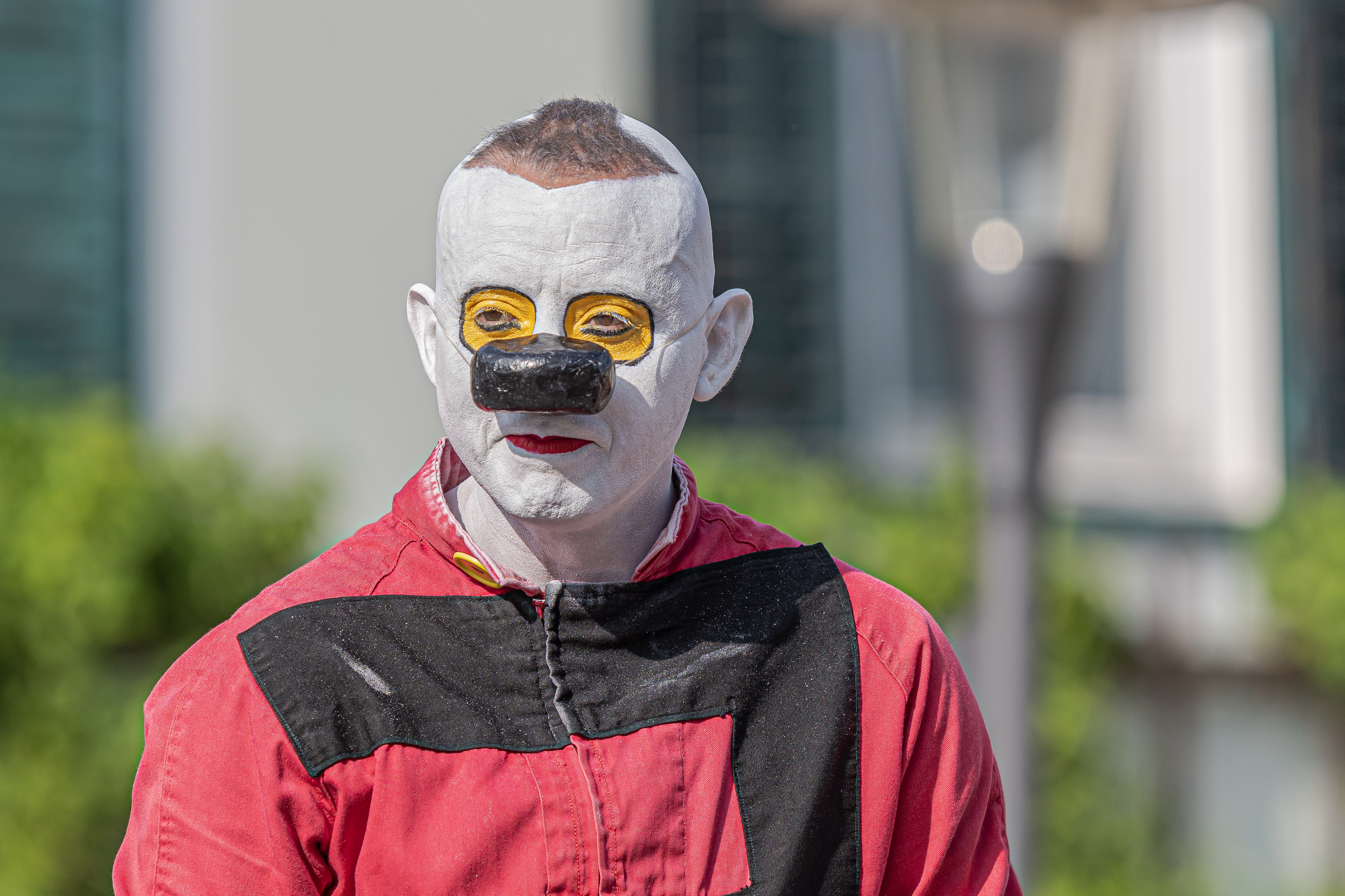 An event of La Strada 2019 in Stainz. Clown Murmuyo plays with the audience in the street performance "Fisura".